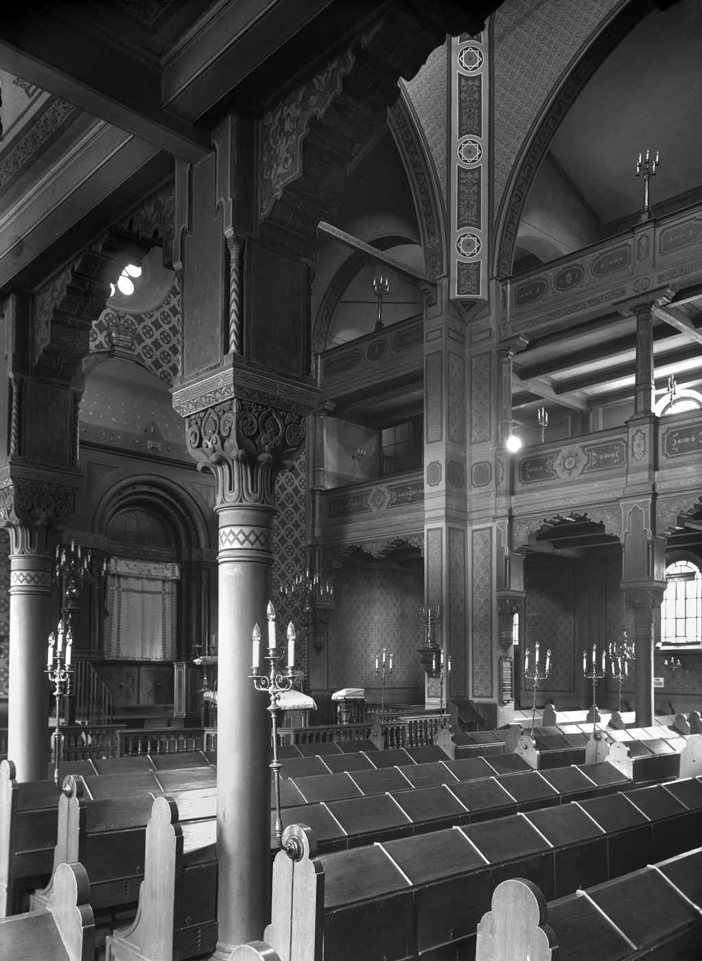 old synagogue Dresden